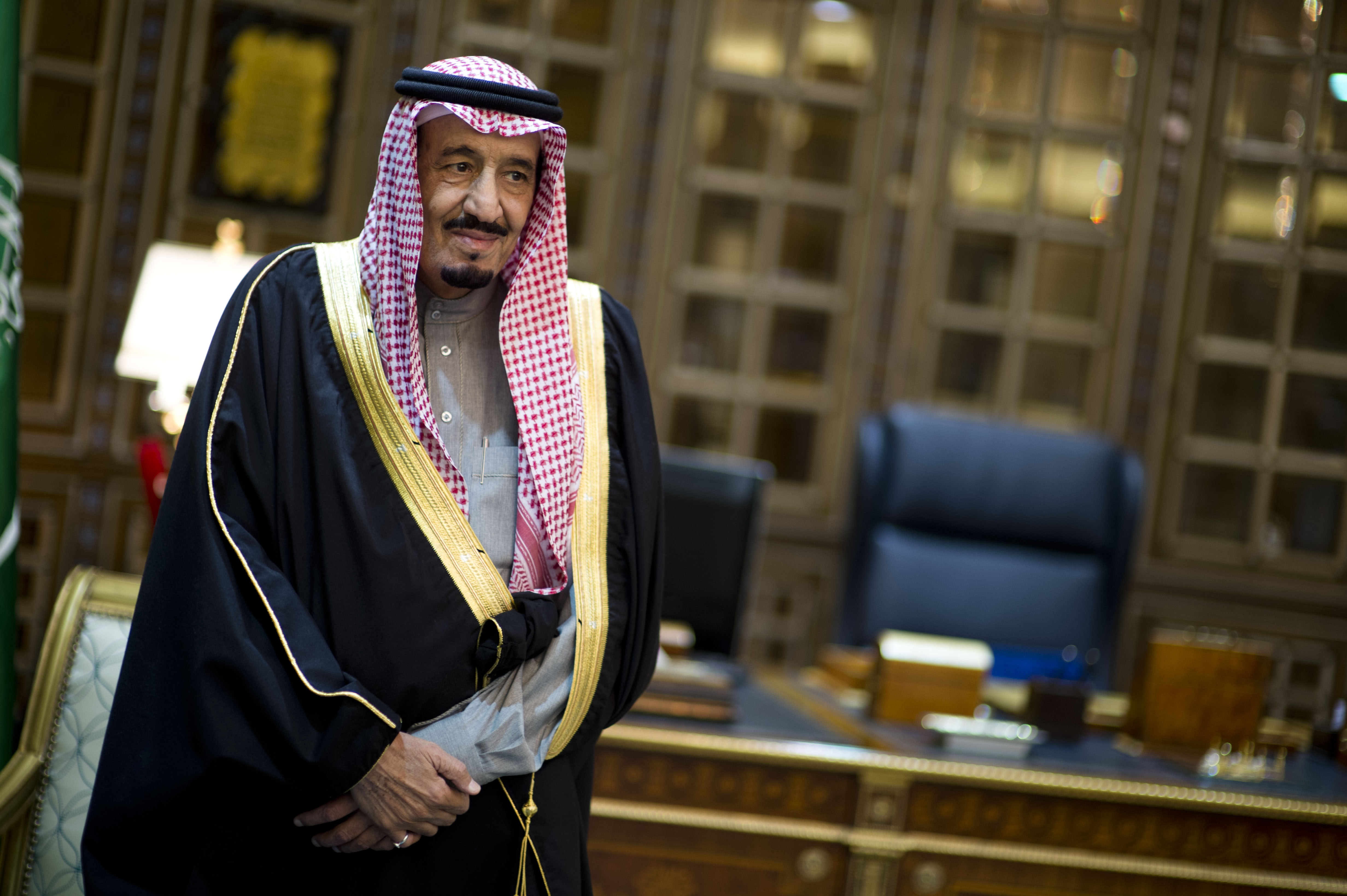 الملك سلمان بن عبد العزيز آل سعود Saudi Arabian Minister of Defense Crown Prince Salman bin Abdulaziz Al Saud welcomes Secretary of Defense Chuck Hagel to his office in Riyadh, Saudi Arabia on December 9, 2013. Hagel met with various Saudi Arabian leaders to discuss issues of mutual importance. Photo by Erin A. Kirk-Cuomo (Released).